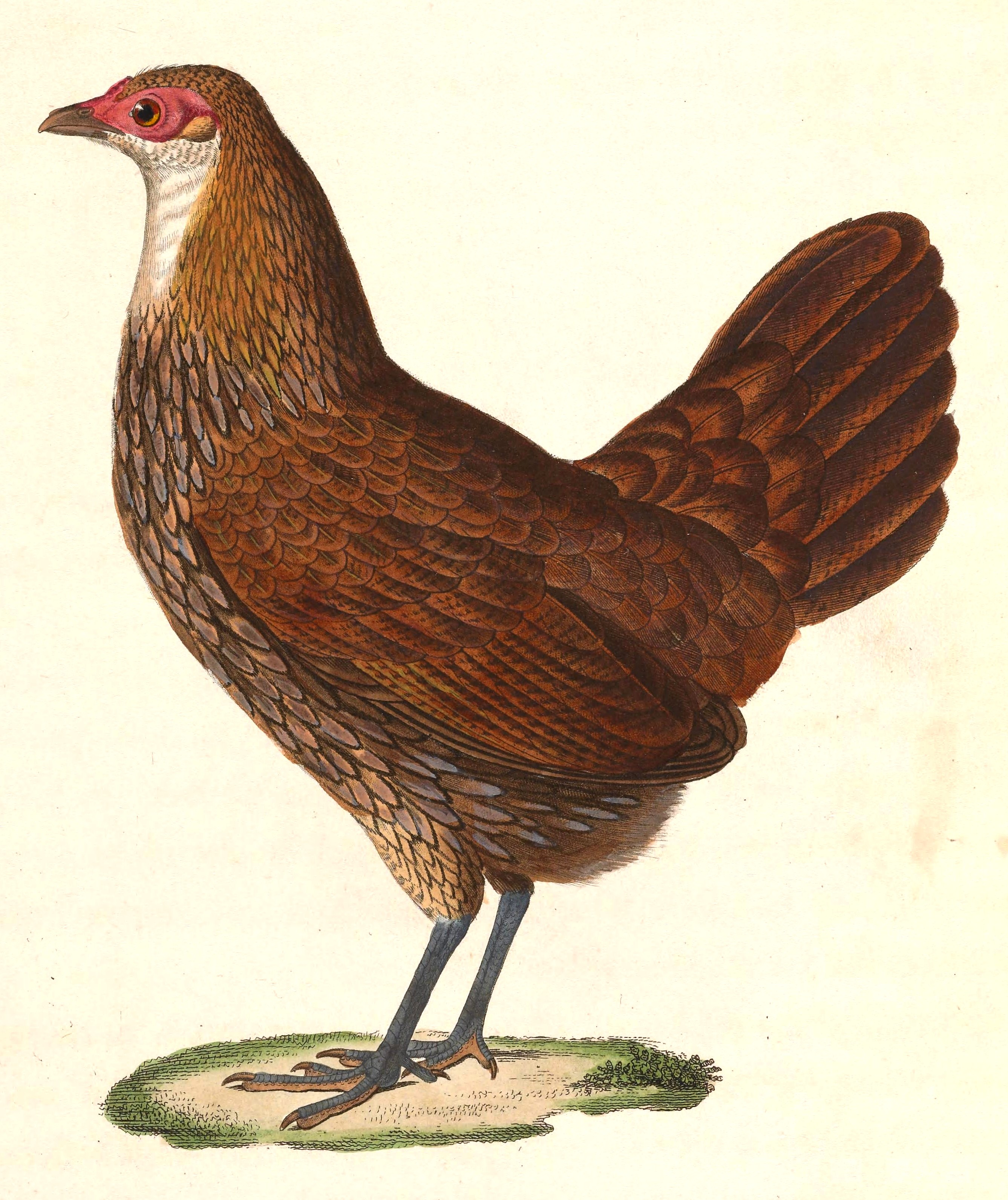 « Gallus sonnerati » = Gallus sonneratii (Grey Junglefowl) - female